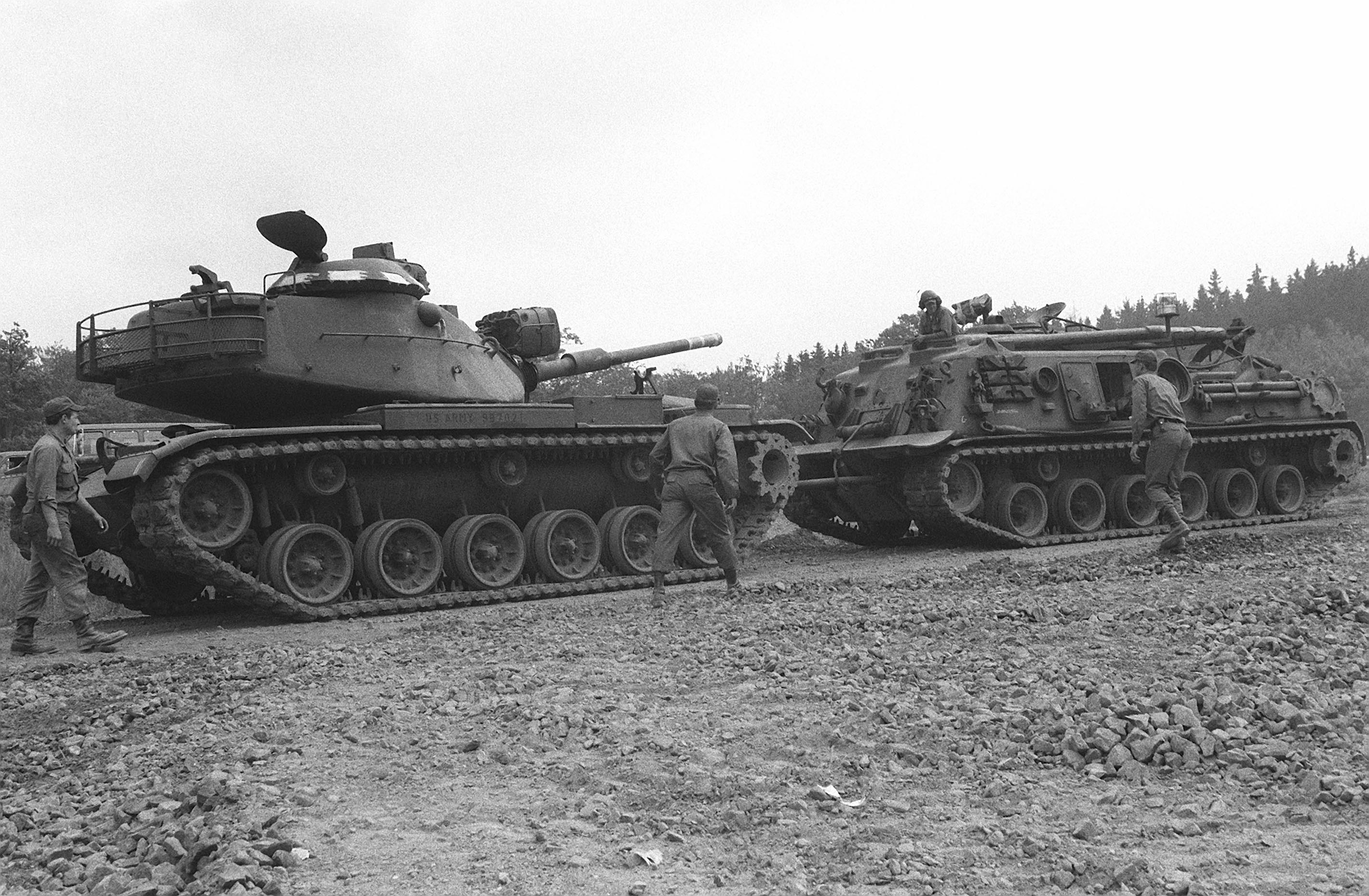 A right front view of an M-88 armored recoery vehicle towing an M-60 main battle tank from a storage shelter in preparation for Exercise REFORGER 78.